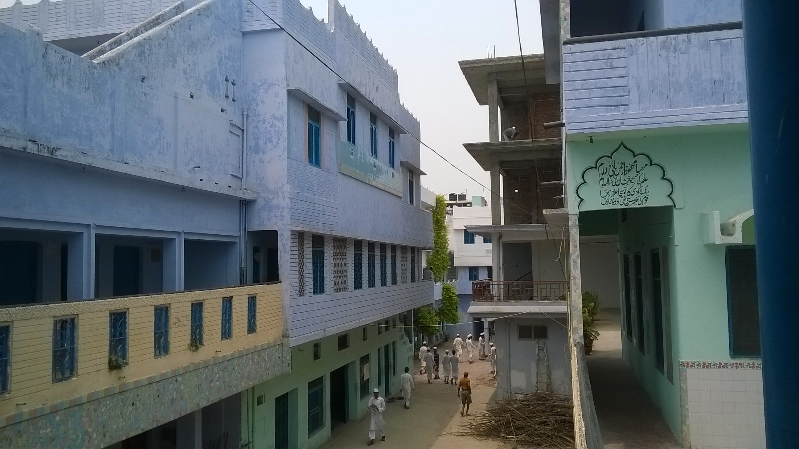 Noorul Uloom Bahraich's building panoramic view